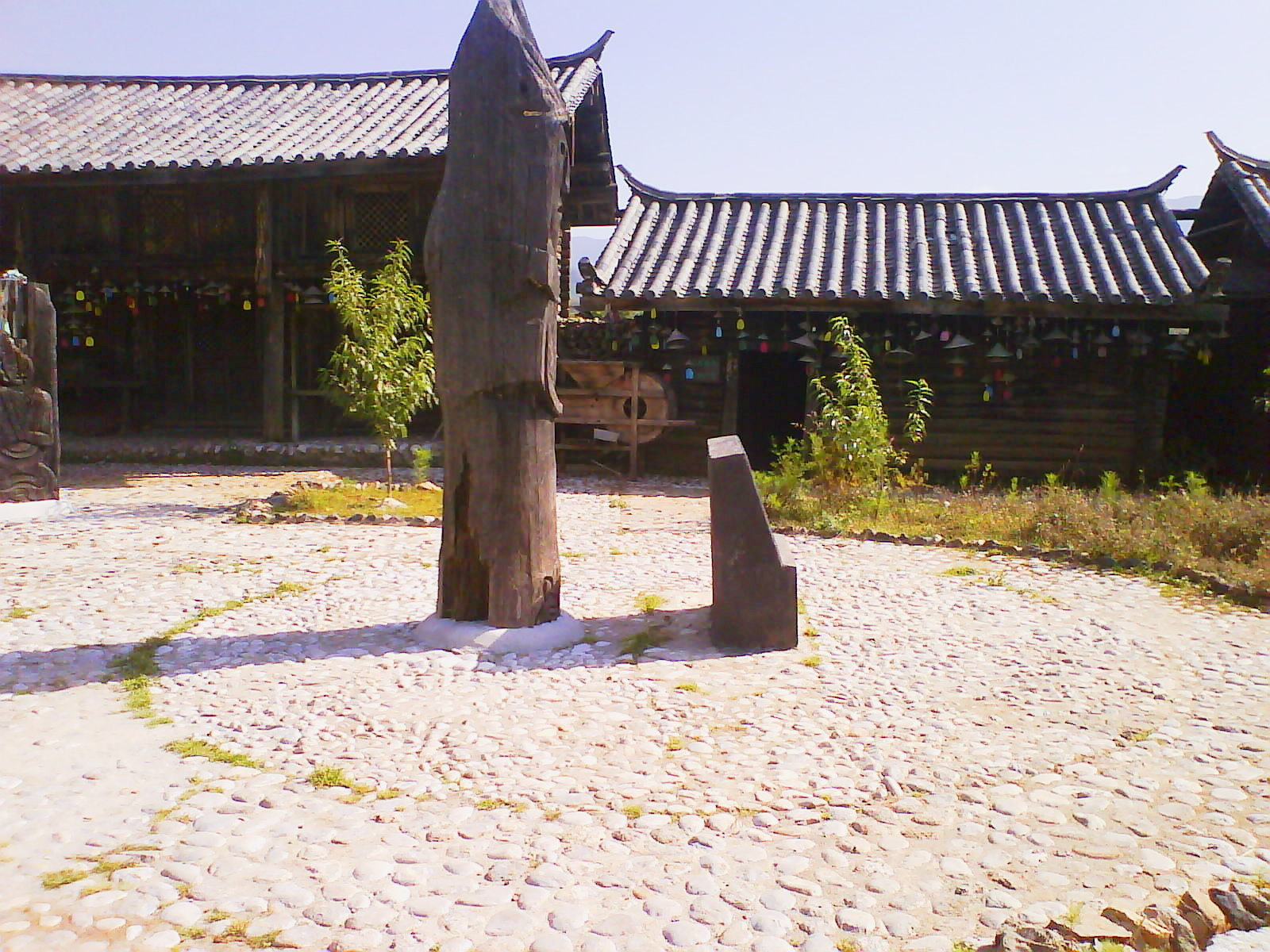 Dongba totem in a cult place near Lijiang, Yunnan province, People Republic of China.